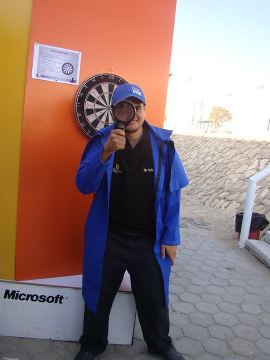 Ahmed Fouad in khalik asly